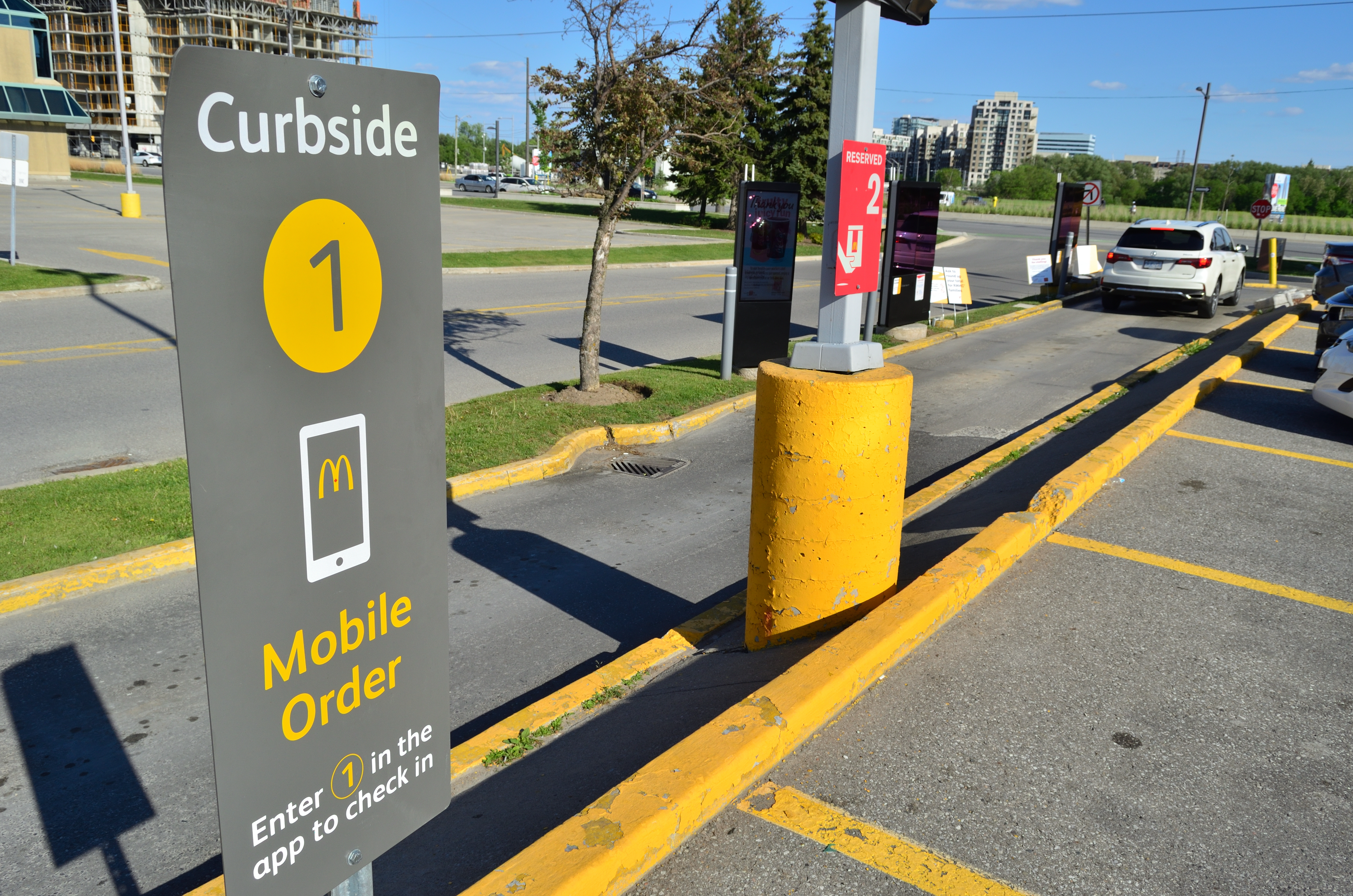 McDonald's curbside pickup during COVID-19